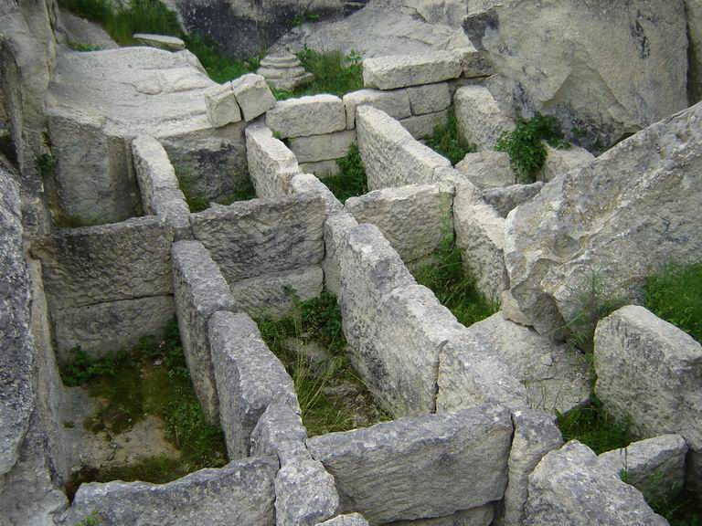 Perperikon, the rulers' tomb. Bulgaria